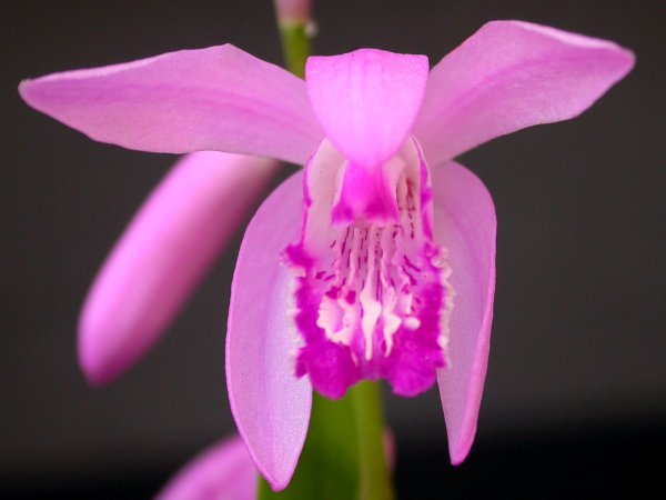 Bletilla striata